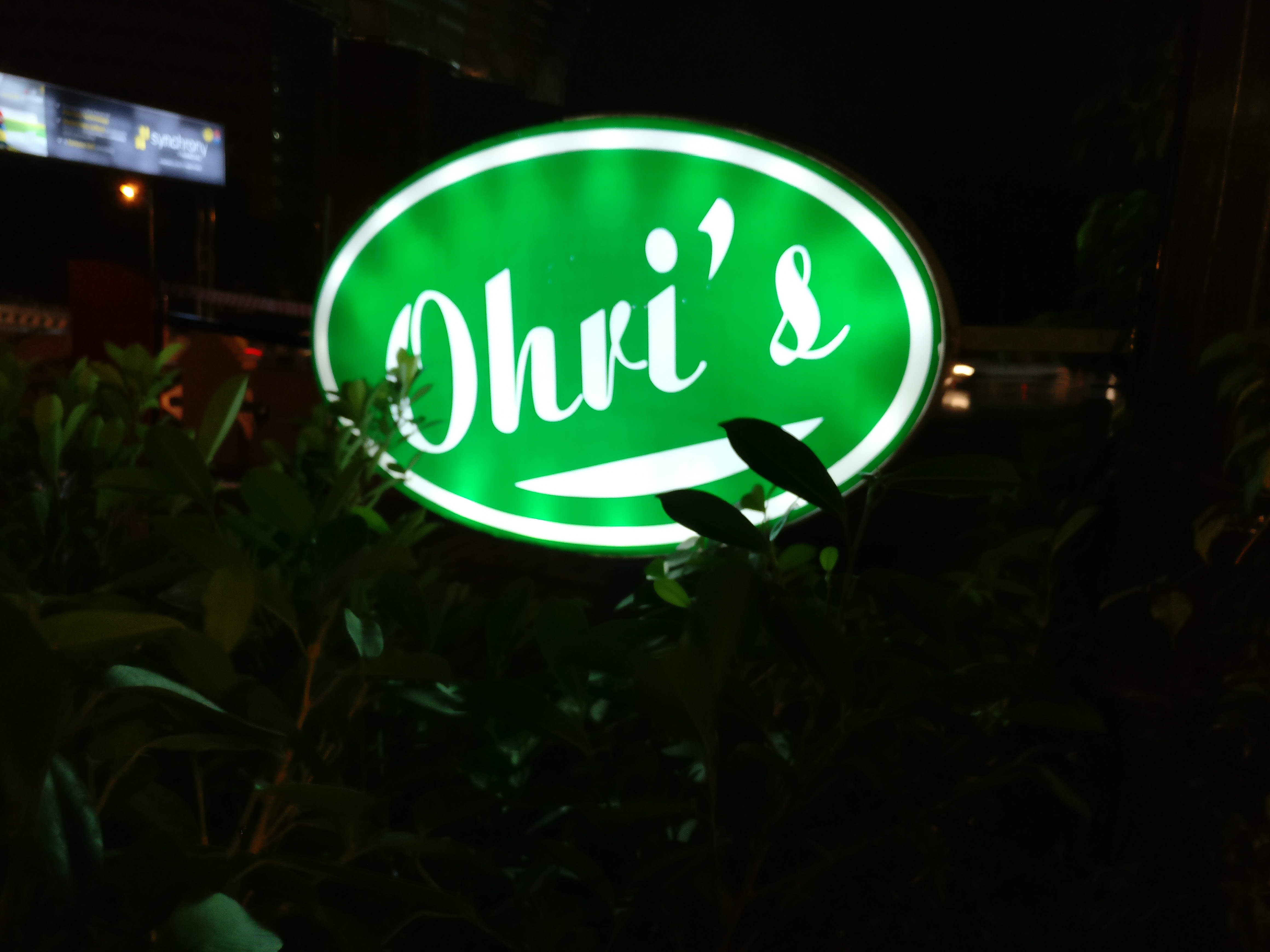 Ohri's is a hytech Dhaba situated in madhapur hytech city hyderabad